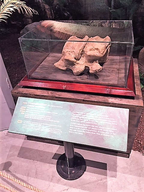 Vertebrae of "Huanghetitan" ruyangensis at Discovery Science Center, Costa Mesa, California